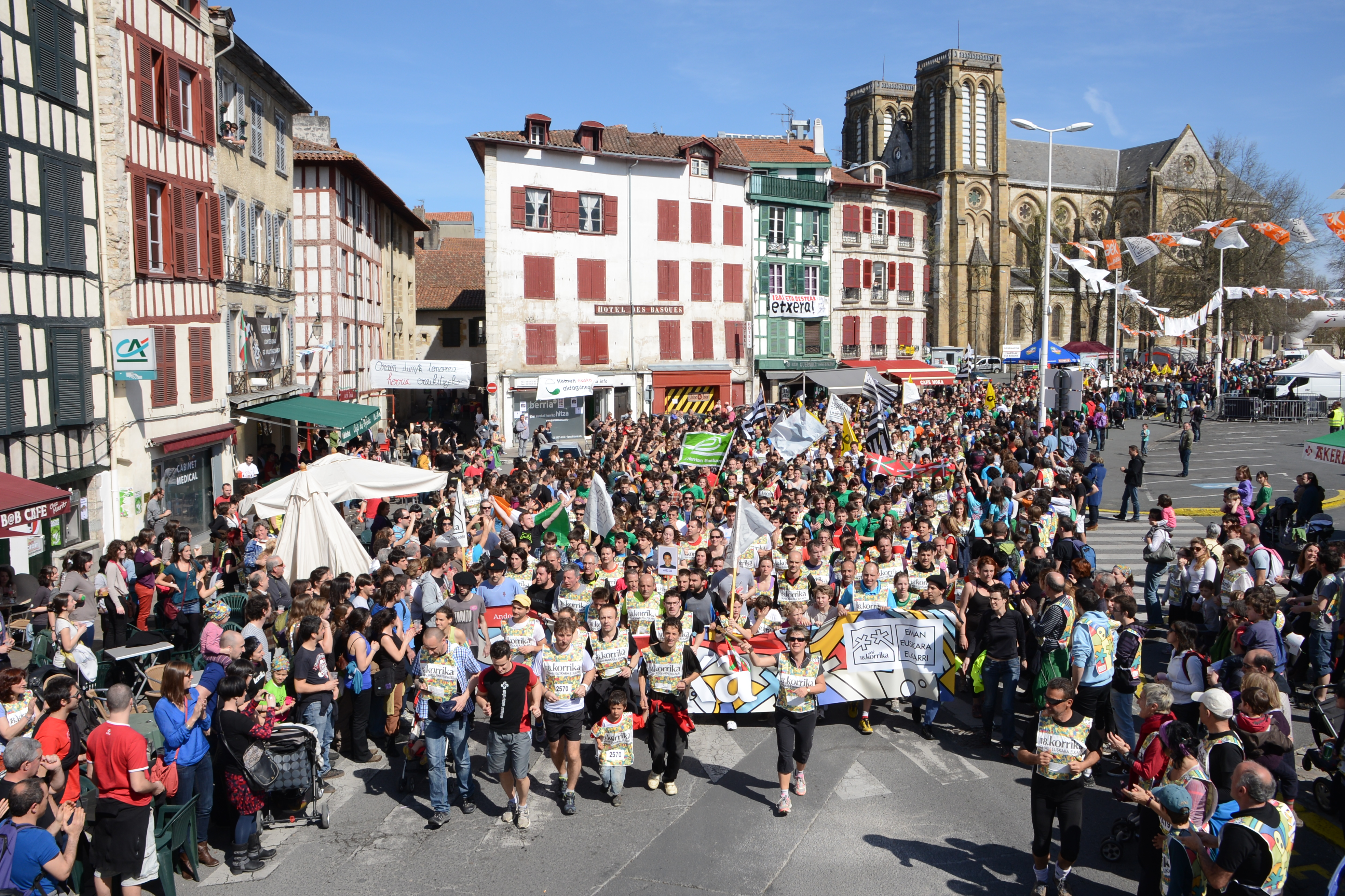 18th edition of Korrika in Bayonne.